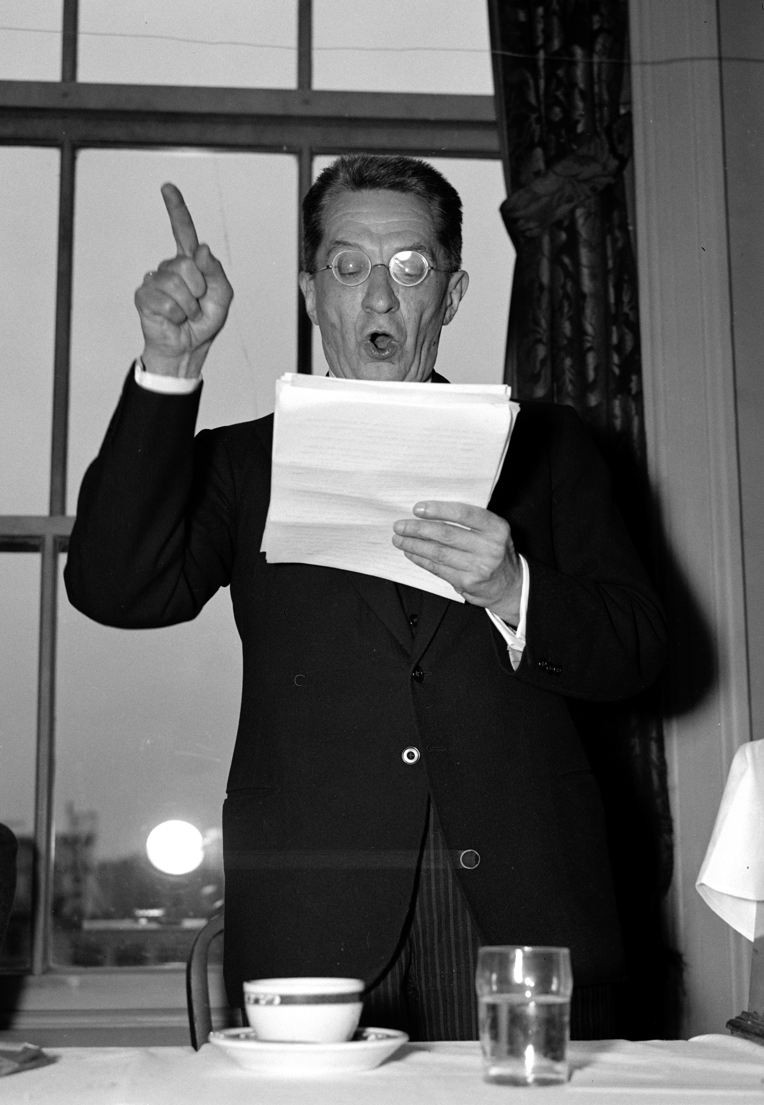 Off-the-record. Washington, D.C., April 21. Alexander Kerensky, Head of the Russian Provisional Government of 1917, and, who was later expelled from the country by Lenin, was a guest of the National Press Club at a luncheon today. Conditions in Europe as experienced by the former statesman were described to the newsmen in an off-the-record talk, 4/21/38